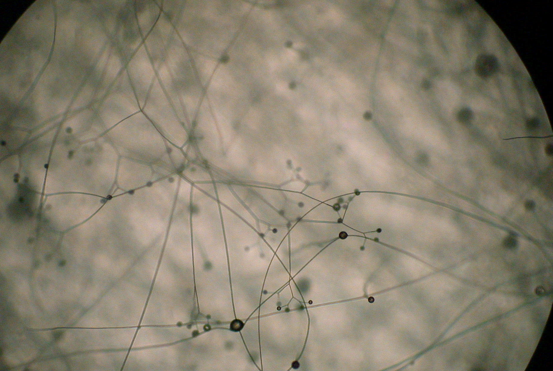 Piptocephalis sp.